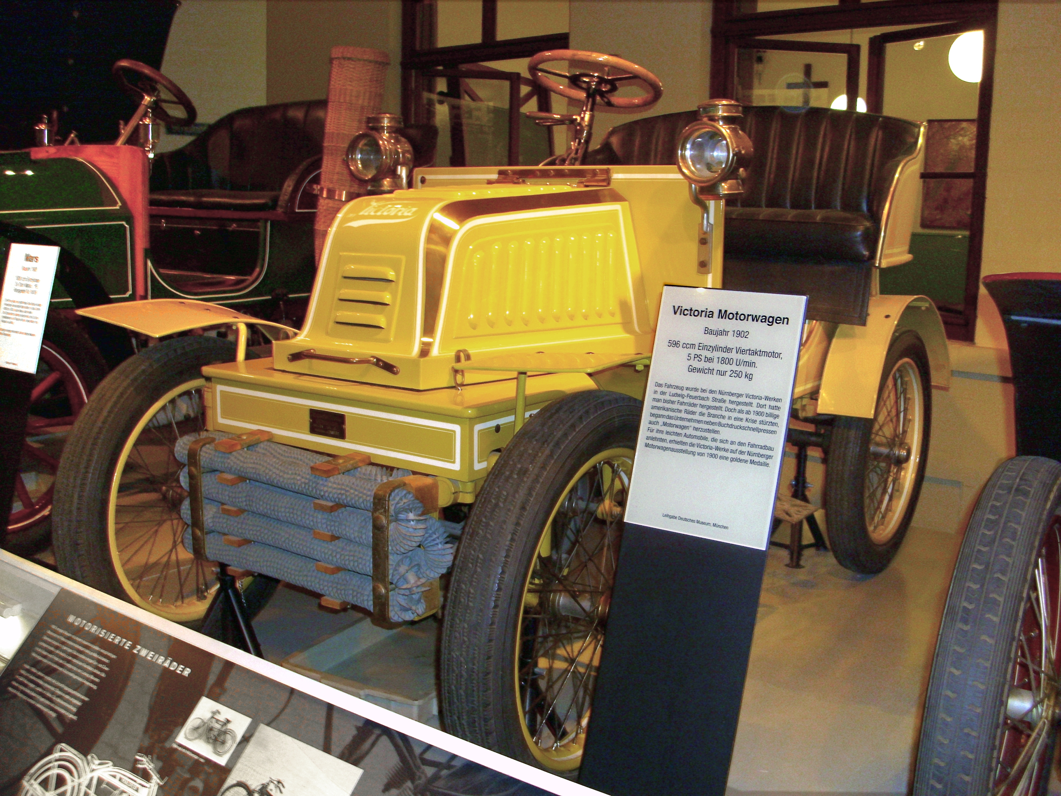 Victoria 1902 (Country of origin: Germany)